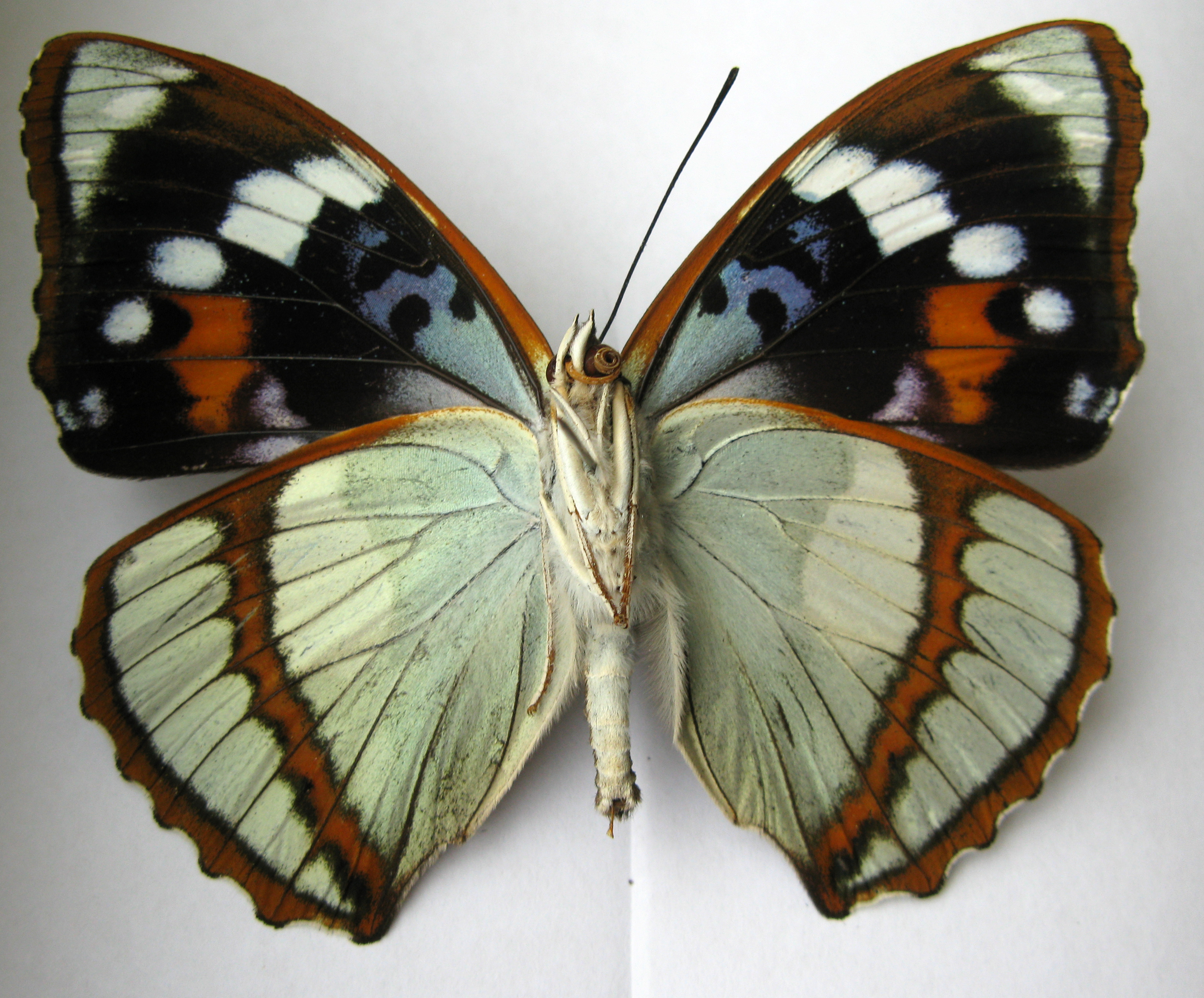 Mimathyma_schrenckii_male